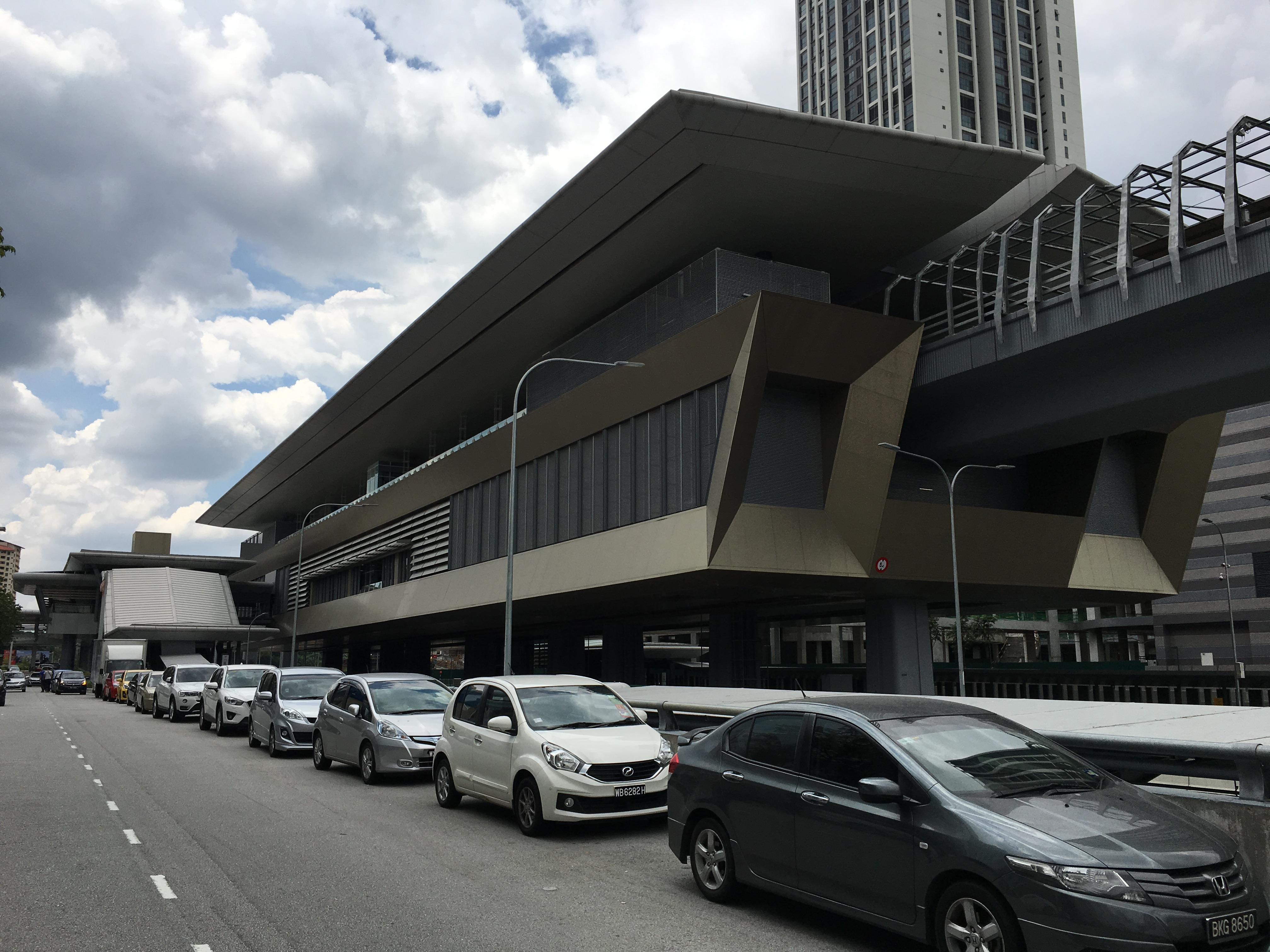 Surian MRT Station from Jalan PJU 5/8, Dataran Sunway.